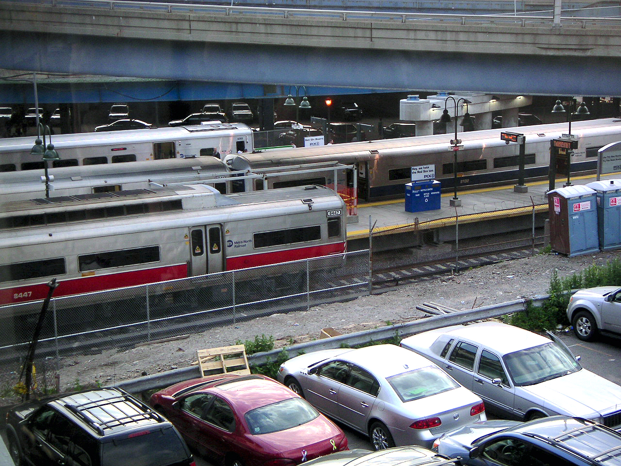 Picture of the Yankees 153rd Street MTA Station